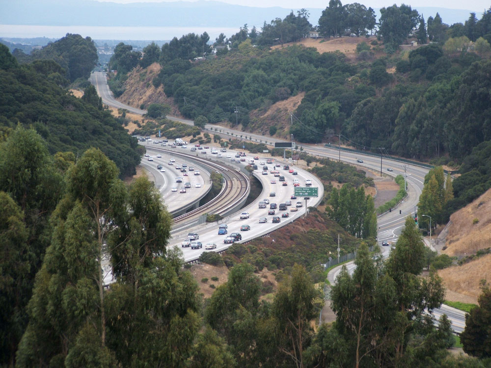 Taken and donated by Guinnog September 2006